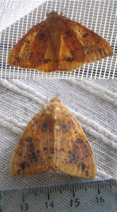 Heliophisma klugii moth (Boisduval 1833), syn. Achaea klugii Picture taken in Réunion Noctuidae catocalinae from Madagascar and Réunion